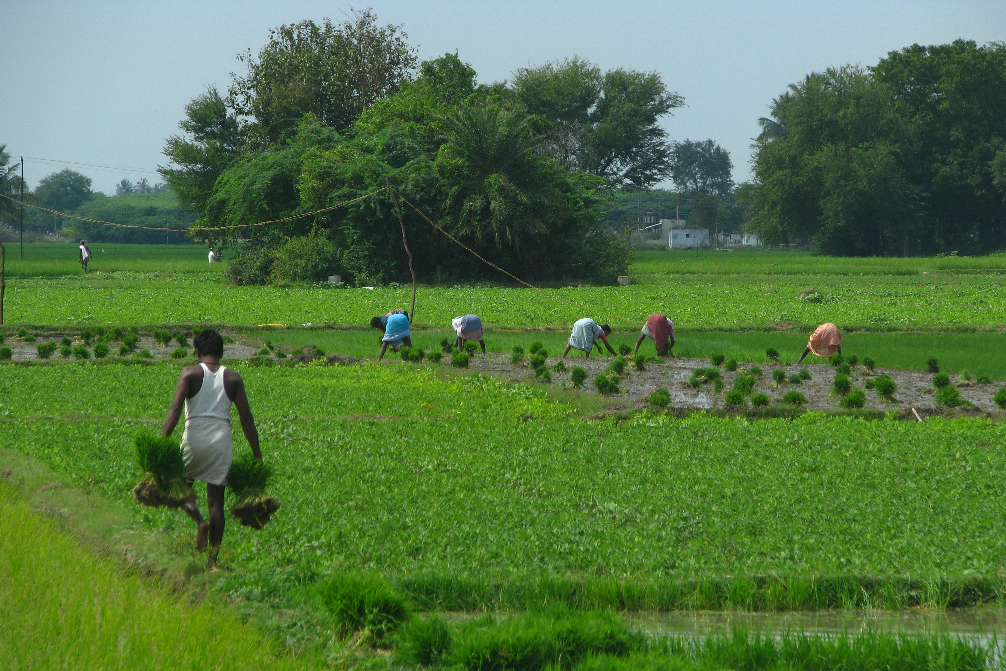 Rural villagers planting a new crop of rice paddy in the Kanchipuram district of Tamil Nadu, India. At this time, a month or so after the last of the monsoon rains, the area is very lush and fertile and beautiful. Agriculture is still a major activity in this area.